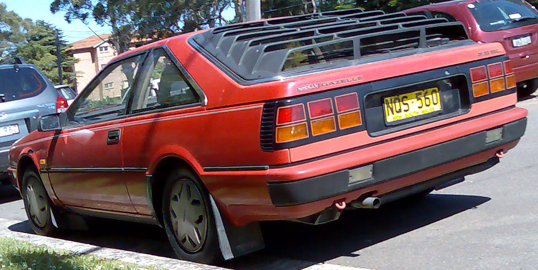 1985 Nissan Gazelle (S12) GL hatchback. Photographed in Gymea, New South Wales, Australia.